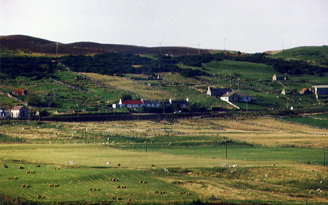 Melvich from across the River Halladale